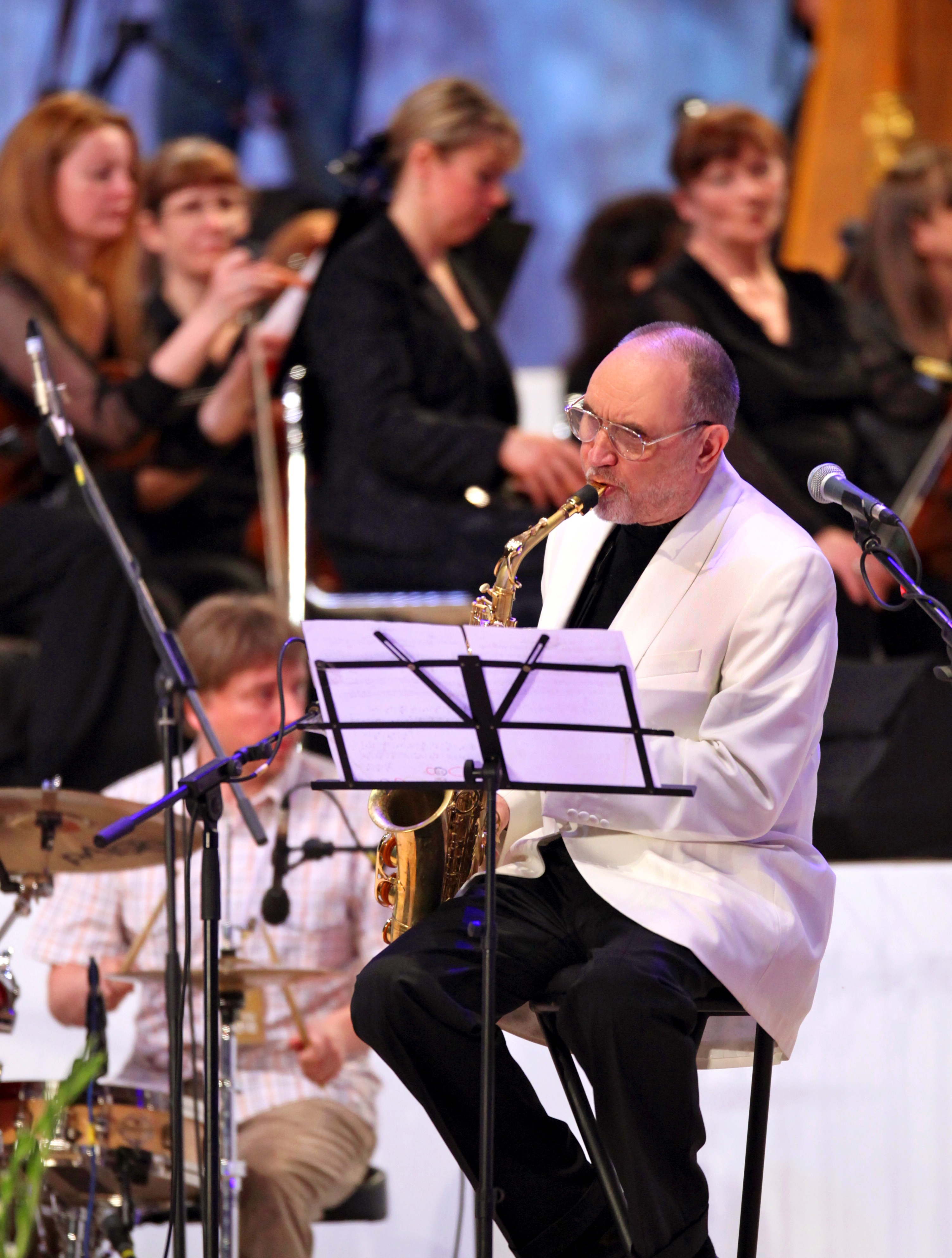 International festival "Skhody do Neba", 2010. Performance of Aleksei Kozlov (musician)